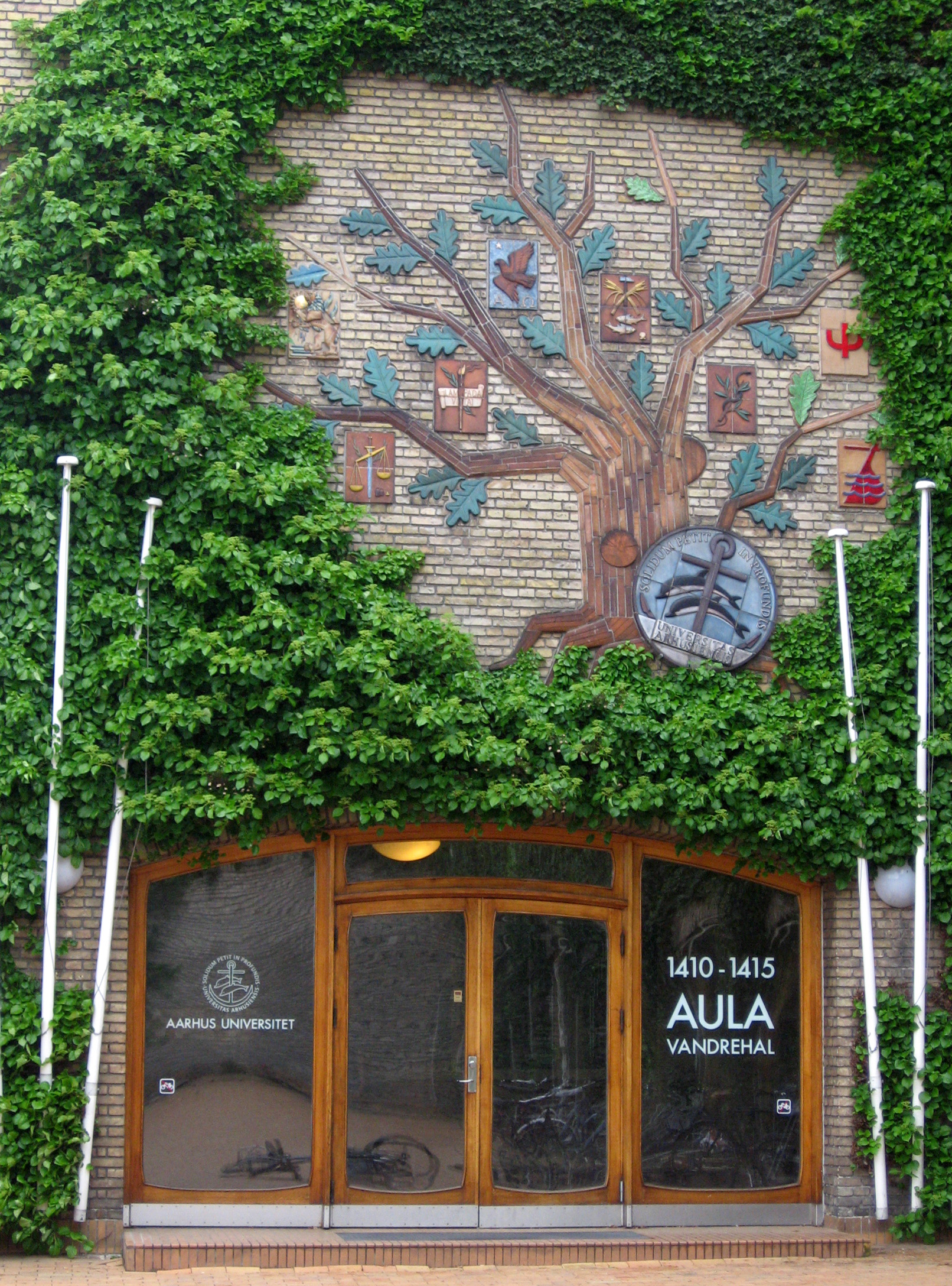 Main entrance to Aarhus Universitet in Århus, Denmark. The tree symbolise the different faculties.